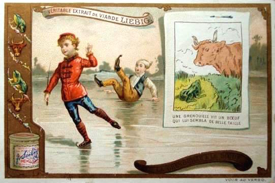 The fable of "The Frog and the Ox", a trade card from the Liebig meat extract company, 1870s